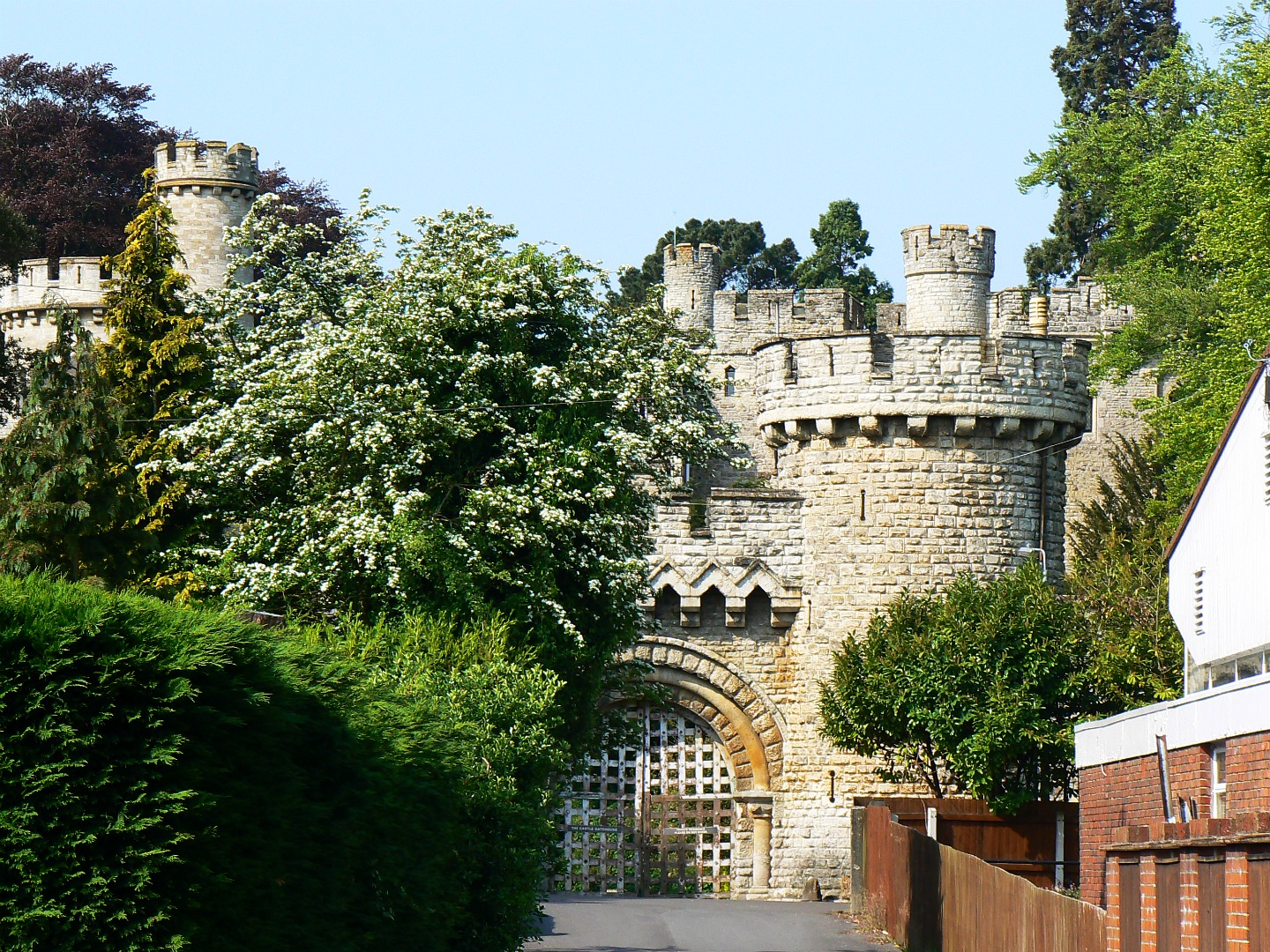 Devizes Castle, St John's Street, Devizes